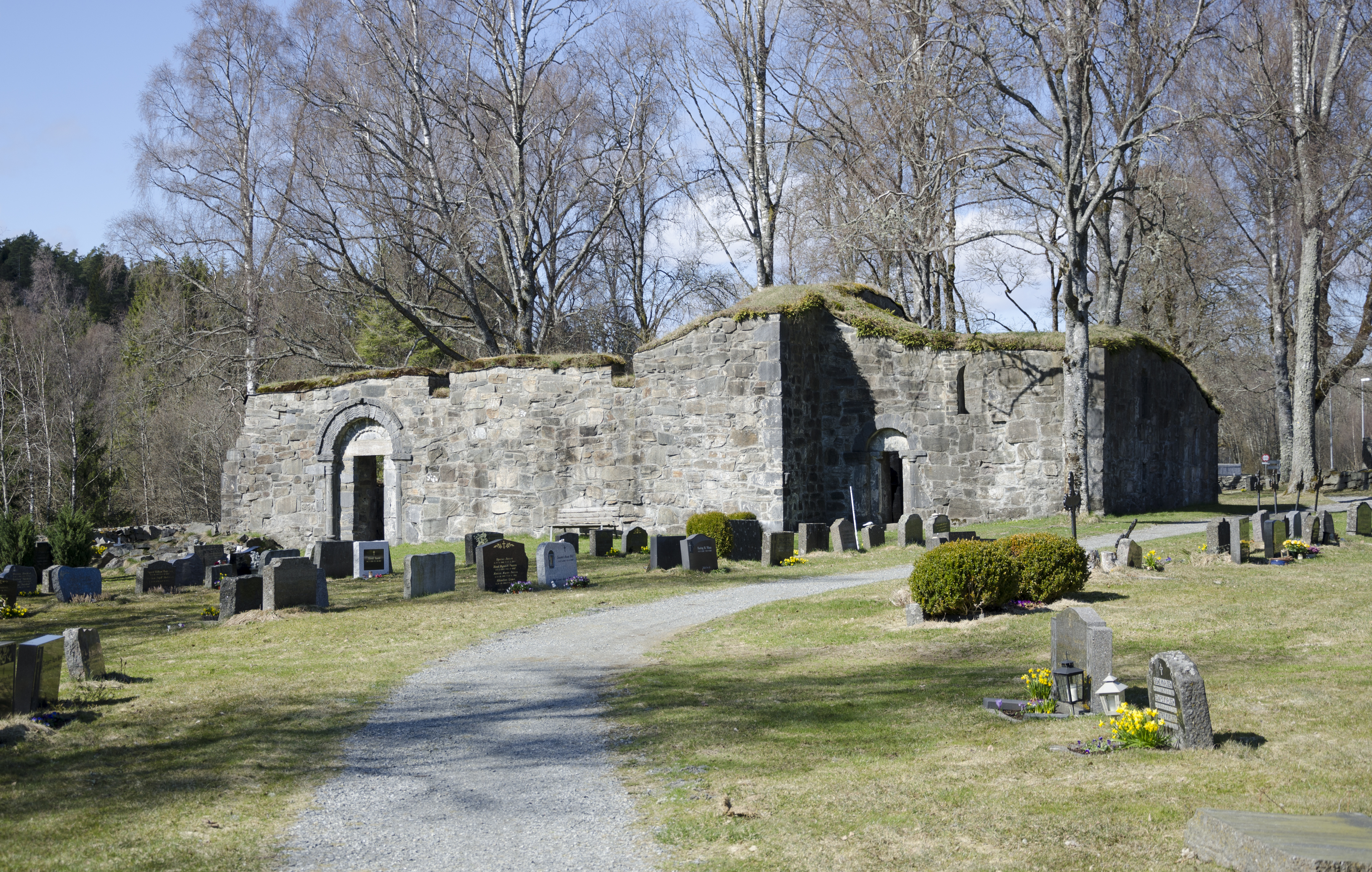 Ruin of Skeidi church, a mediaeval church dedicated to St. Olav, inaugurated ca. 1150. The church was built Romanesque-Norman architectural style and became the centre of Olav worship in the region. In 1846 the old church was partly demolished so its stones could be used in the foundations of the new church as well as for walls surrounding the churchyard.